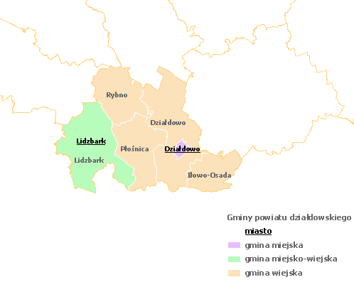 Locator maps of gminas of Dzialdowski